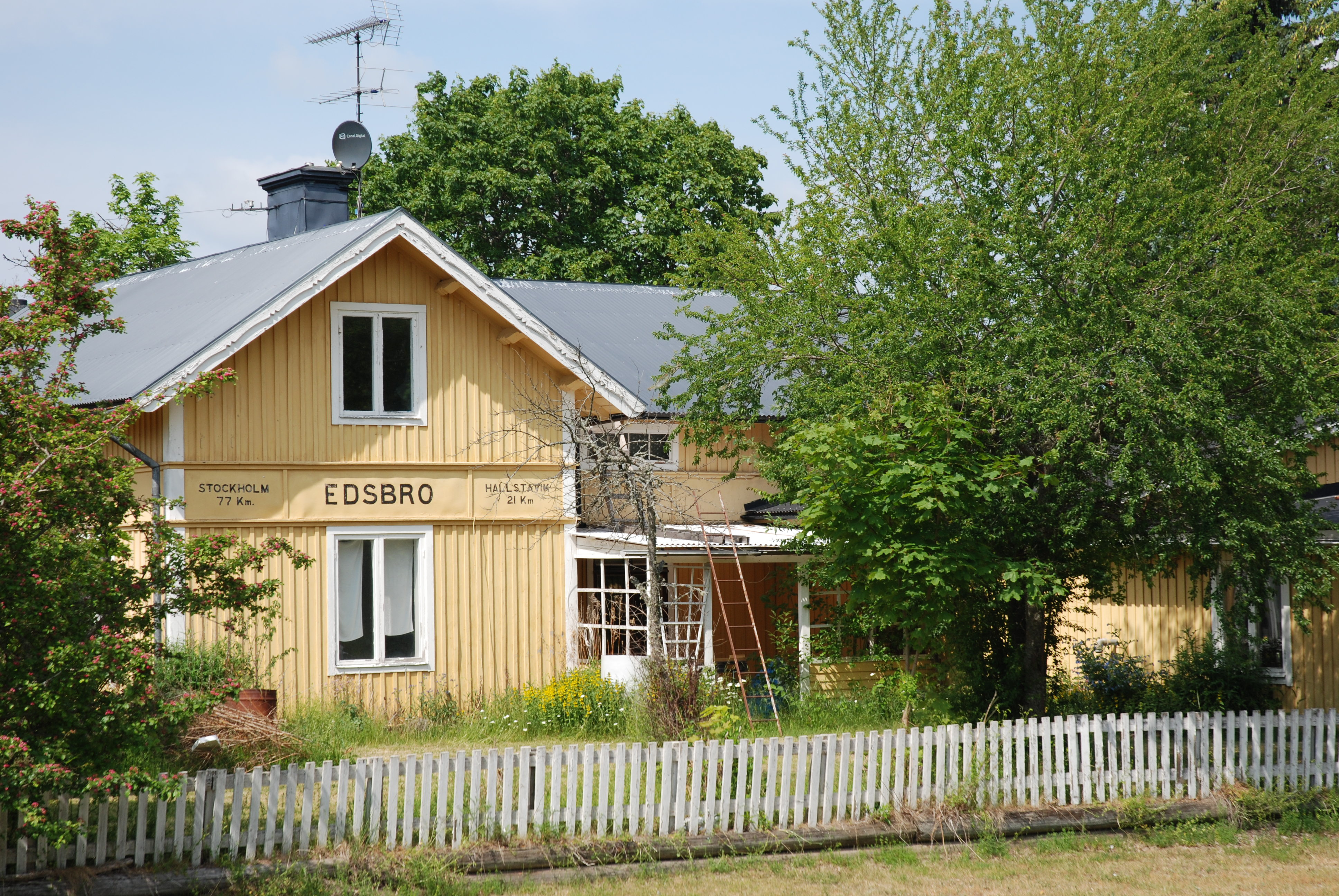 Old Edsbro Railway Statio, Edsbro, Uppland, Sweden